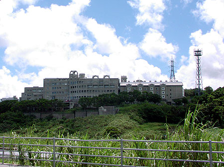 Okinawa Christian Junior College